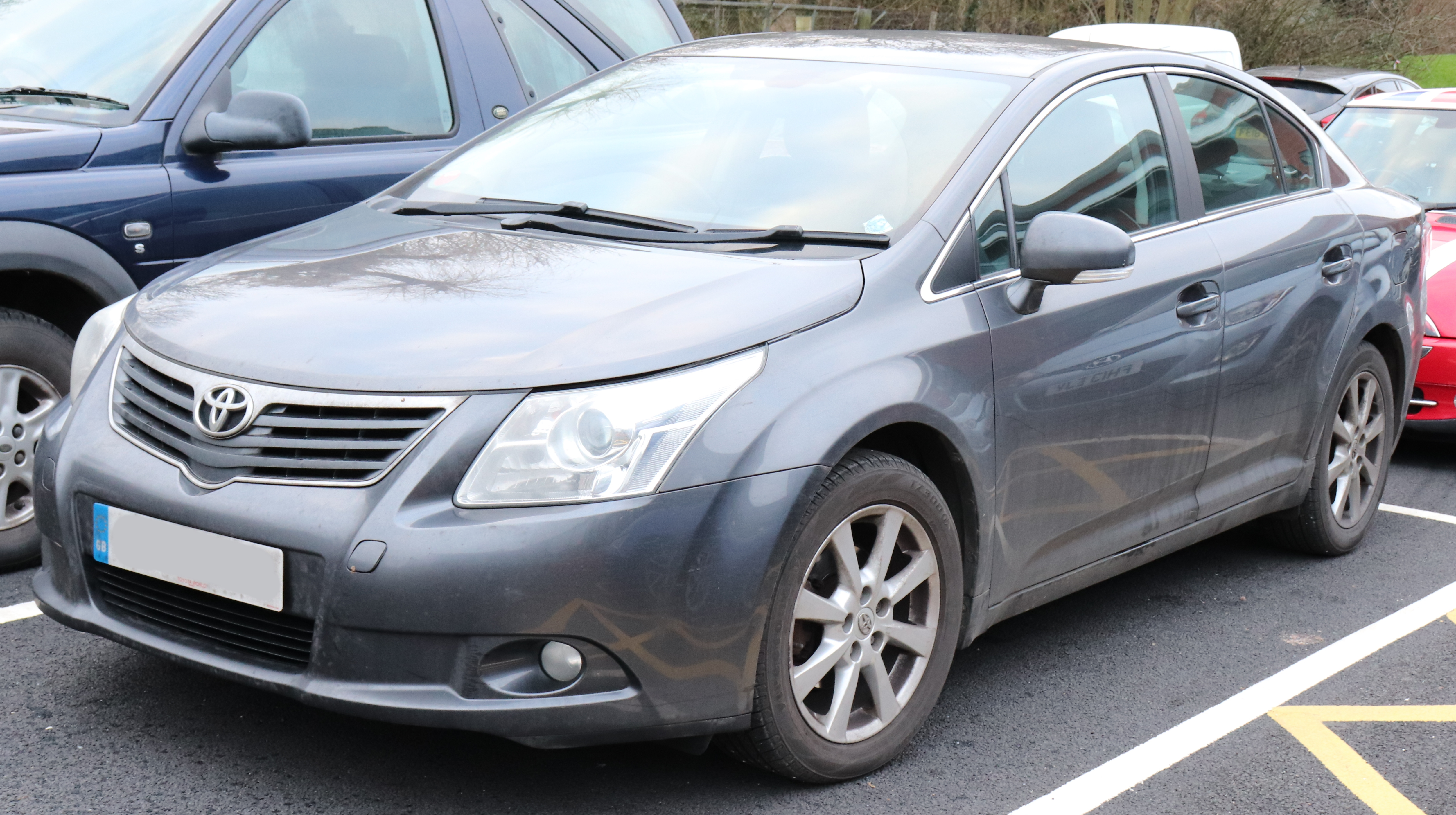 2010 Toyota Avensis TR Valvematic 1.8 Taken in Leamington Spa